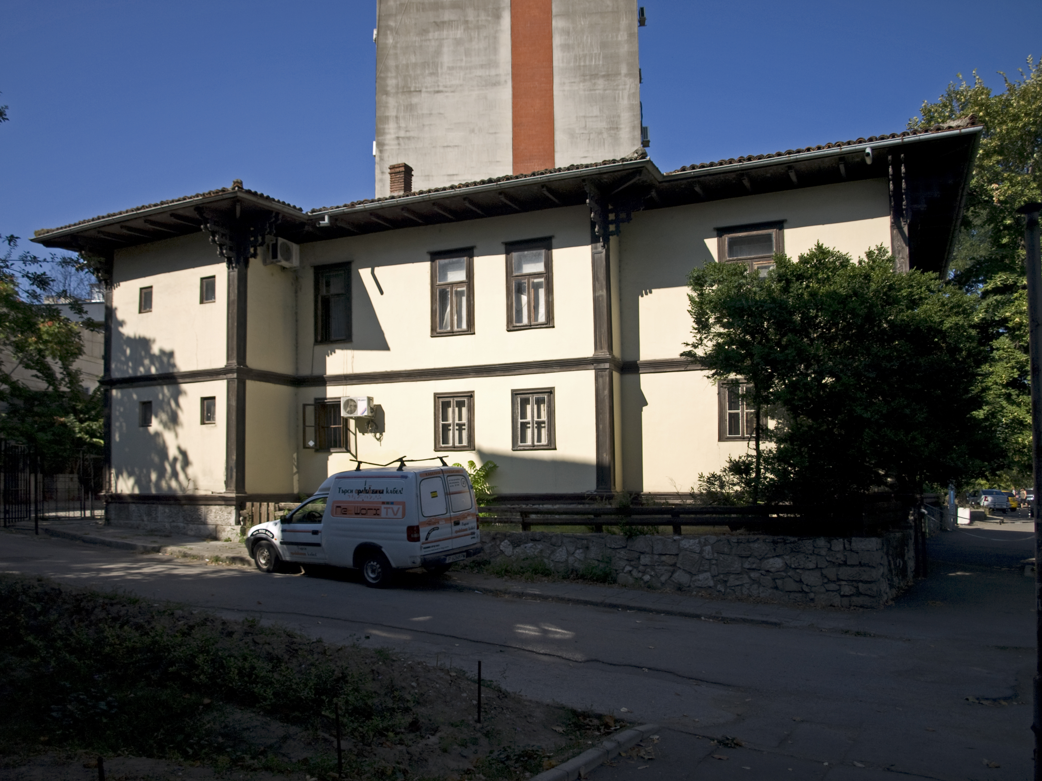 Kaliopa House in Ruse